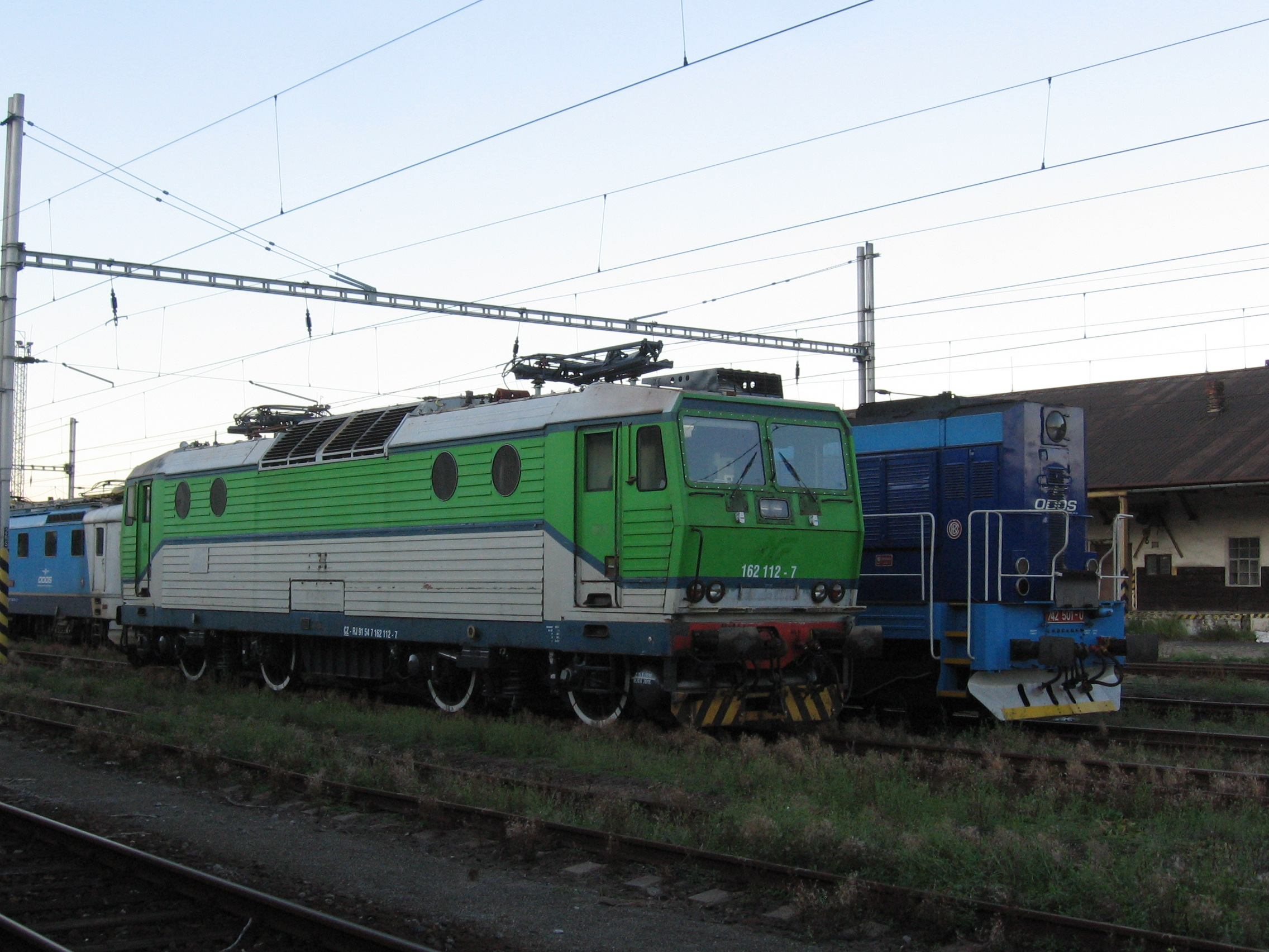 RJ 162.112 in original colours of FNM